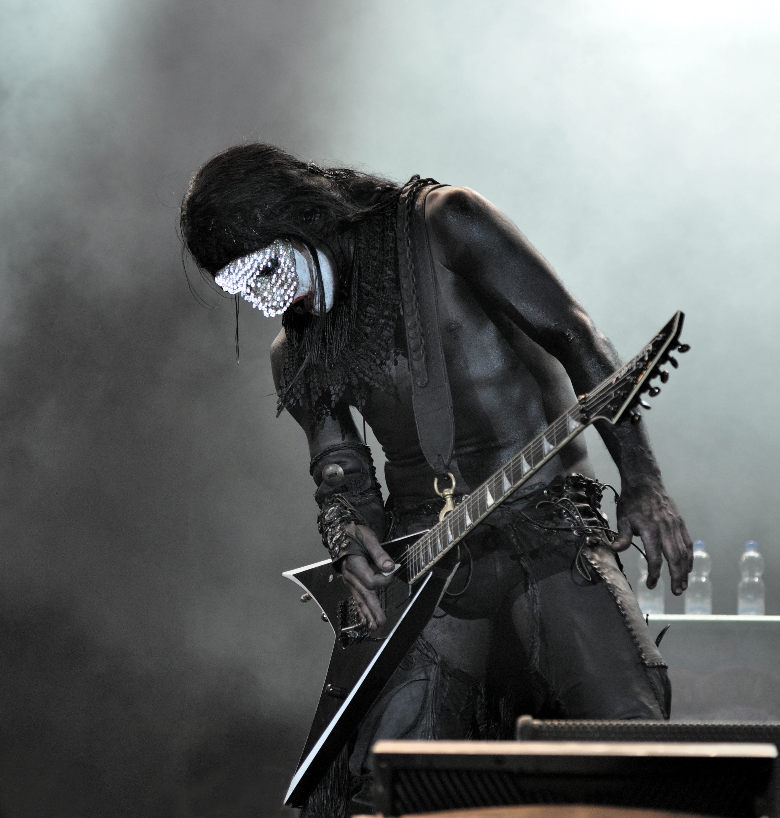 Wes Borland of Limp Bizkit at Rock am Ring 2013